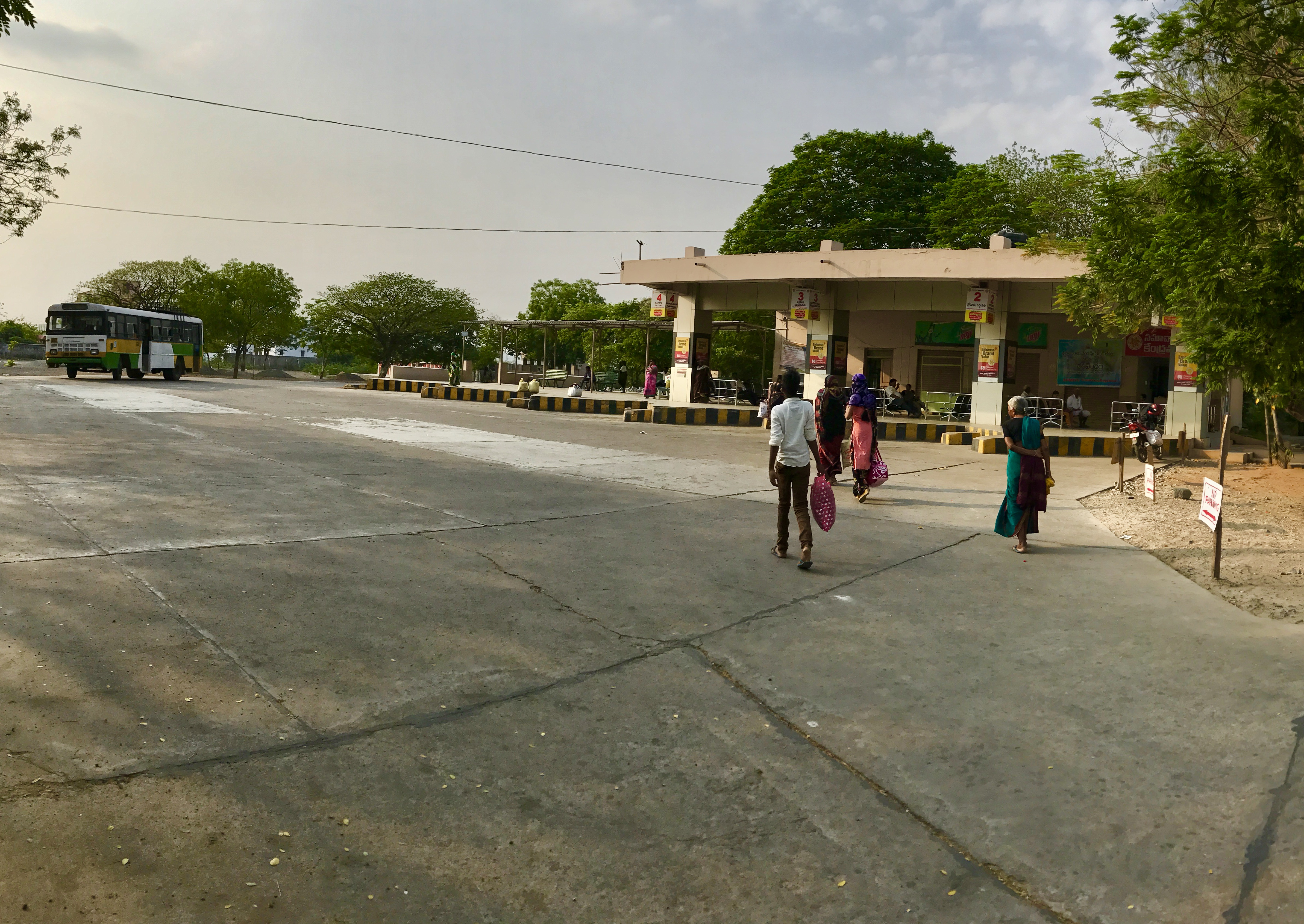 A view of Alaravathi bus station